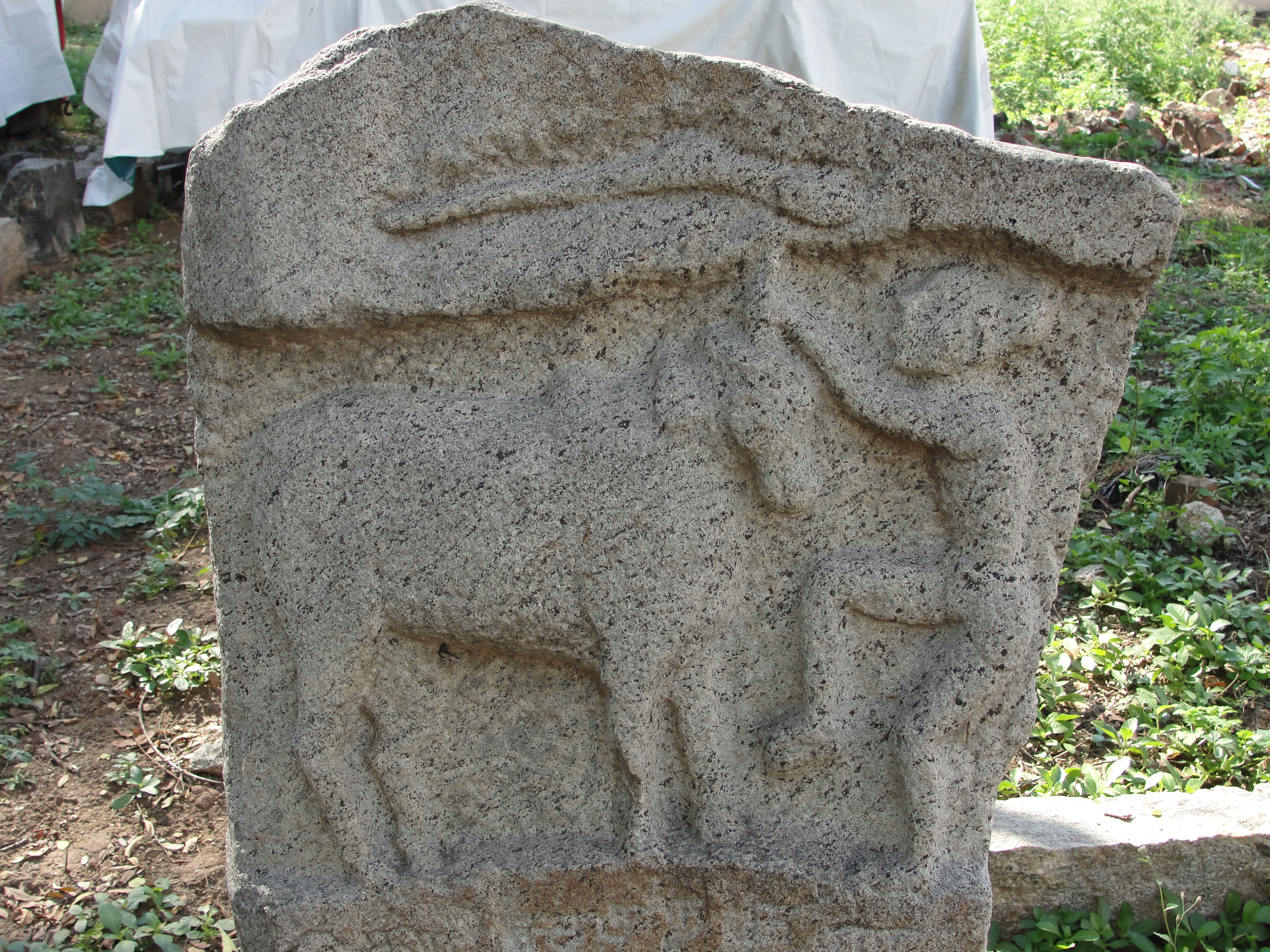 A Bull baiting (Bull-baiting/taming in which the competitors capture fierce bulls let loose on the occasion ) inscription in Salem district museum, Tamil Nadu, India. Place of excavation: Peththa Nayakkan Palaiyam, Attur taluk, Tamil Nadu, India.